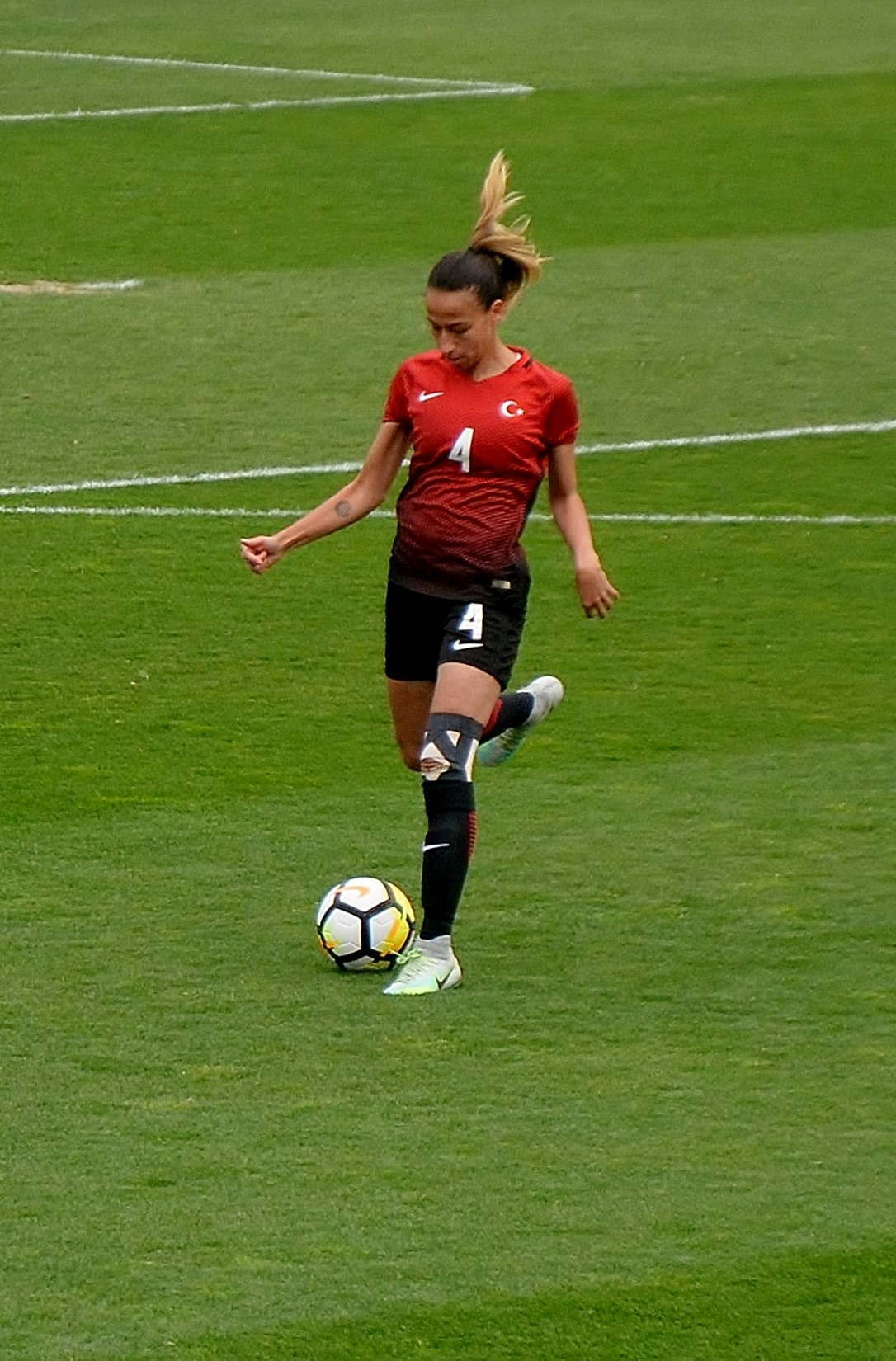 Şevval Alpavut playing for Turkey women's national football team against Estonia.